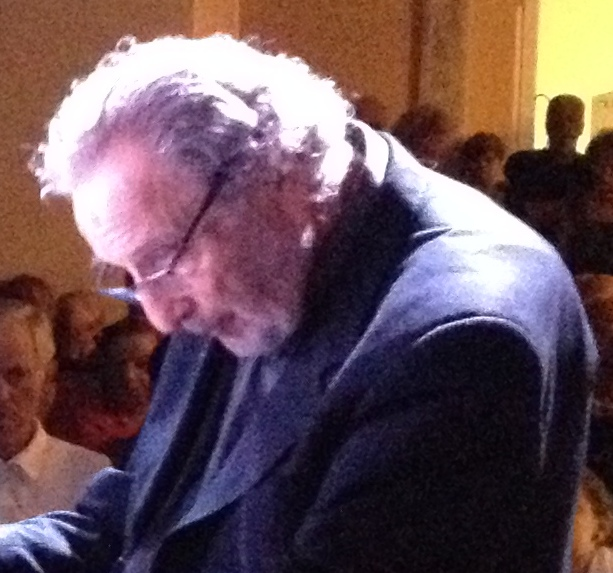 Oscar winner Luis Bacalov at the Michetti Museum, home of the Allessandro Cicogini National Research and Study Center in Francavilla al mare.